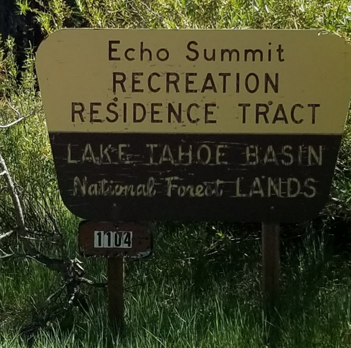 Entrance to a USFS Recreational Residence tract near Lake Tahoe